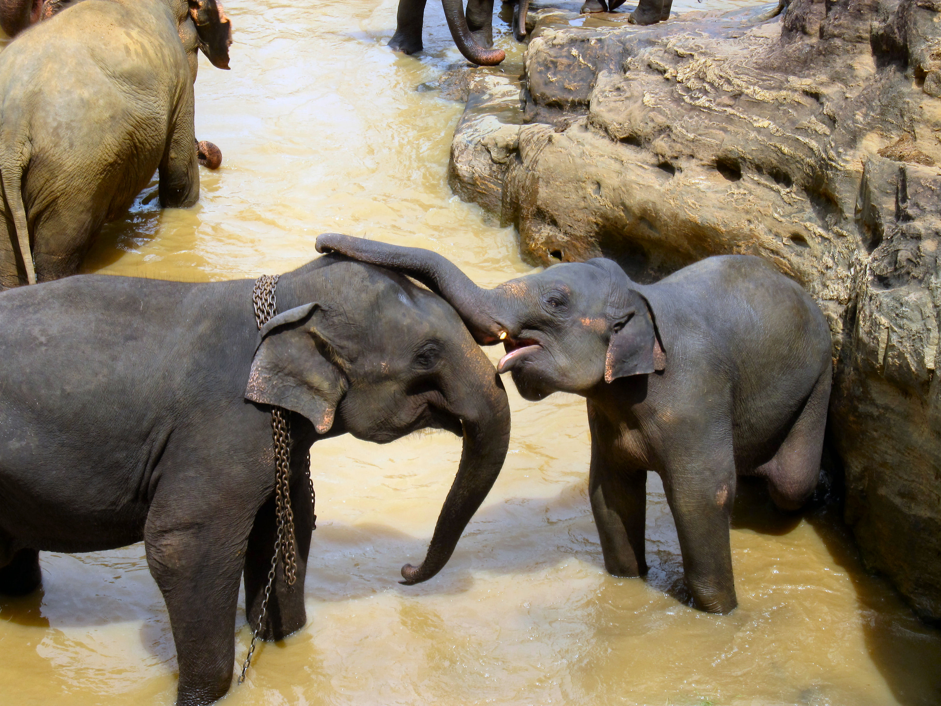 Pinnawala is a village in Kegalle District of Sri Lanka and is around 90 km from the capital, Colombo. It is well known for its elephant orphanage. [edit] Elephant Orphanage The Pinnawela Elephant Orphanage is situated northwest of the town of Kegalle, halfway between the present commerciel capital Colombo and the ancient royal residence Kandy in the hills of central Sri Lanka. There are about 84 elephants under protection. The orphanage is very popular and visited daily by many Sri Lankan and foreign tourists.